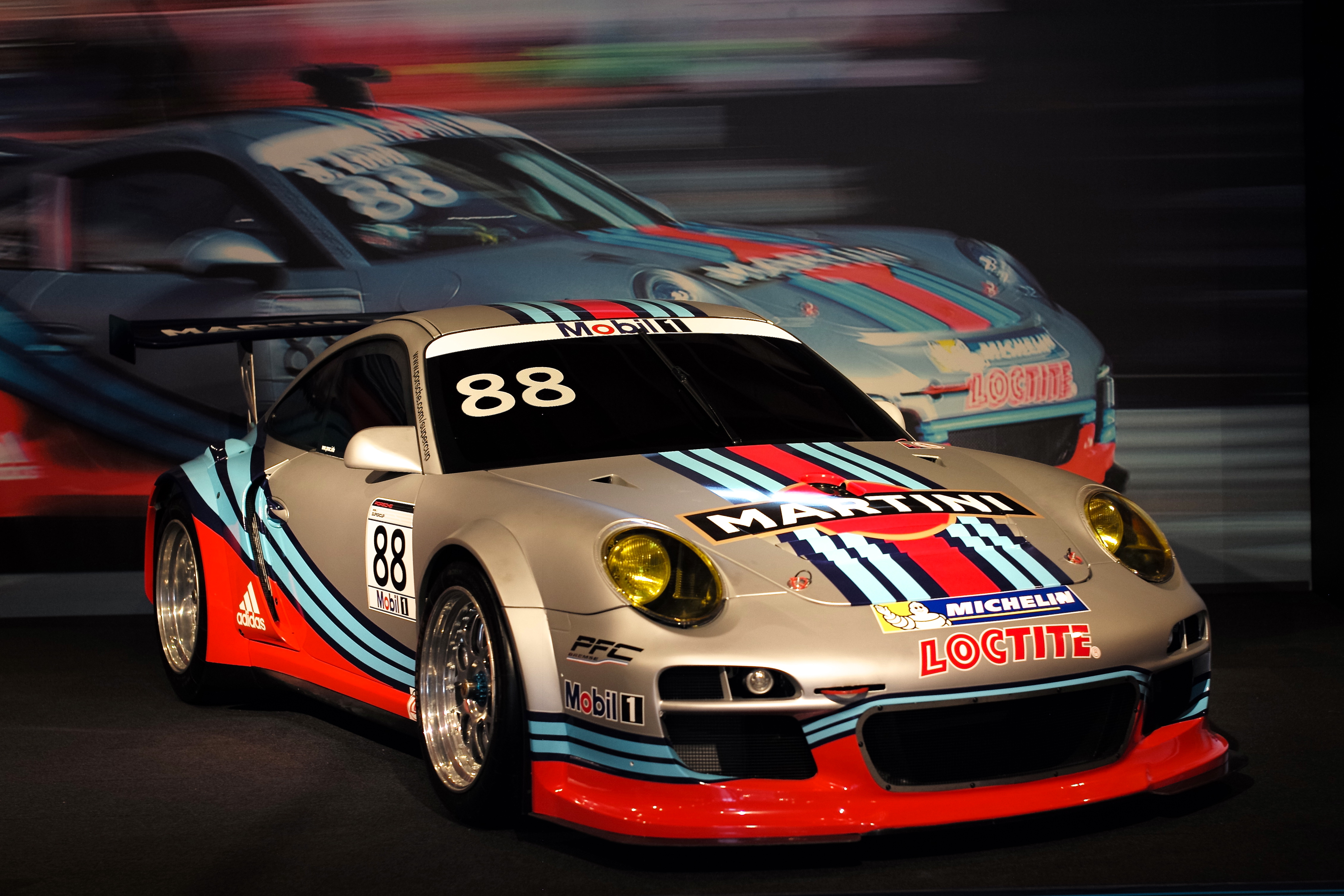 3.8 liter flat six engine (460HP). Raced in Porsche Supercup by Sebastian Loeb. The car is on display at the Louwman Museum in The Hague.